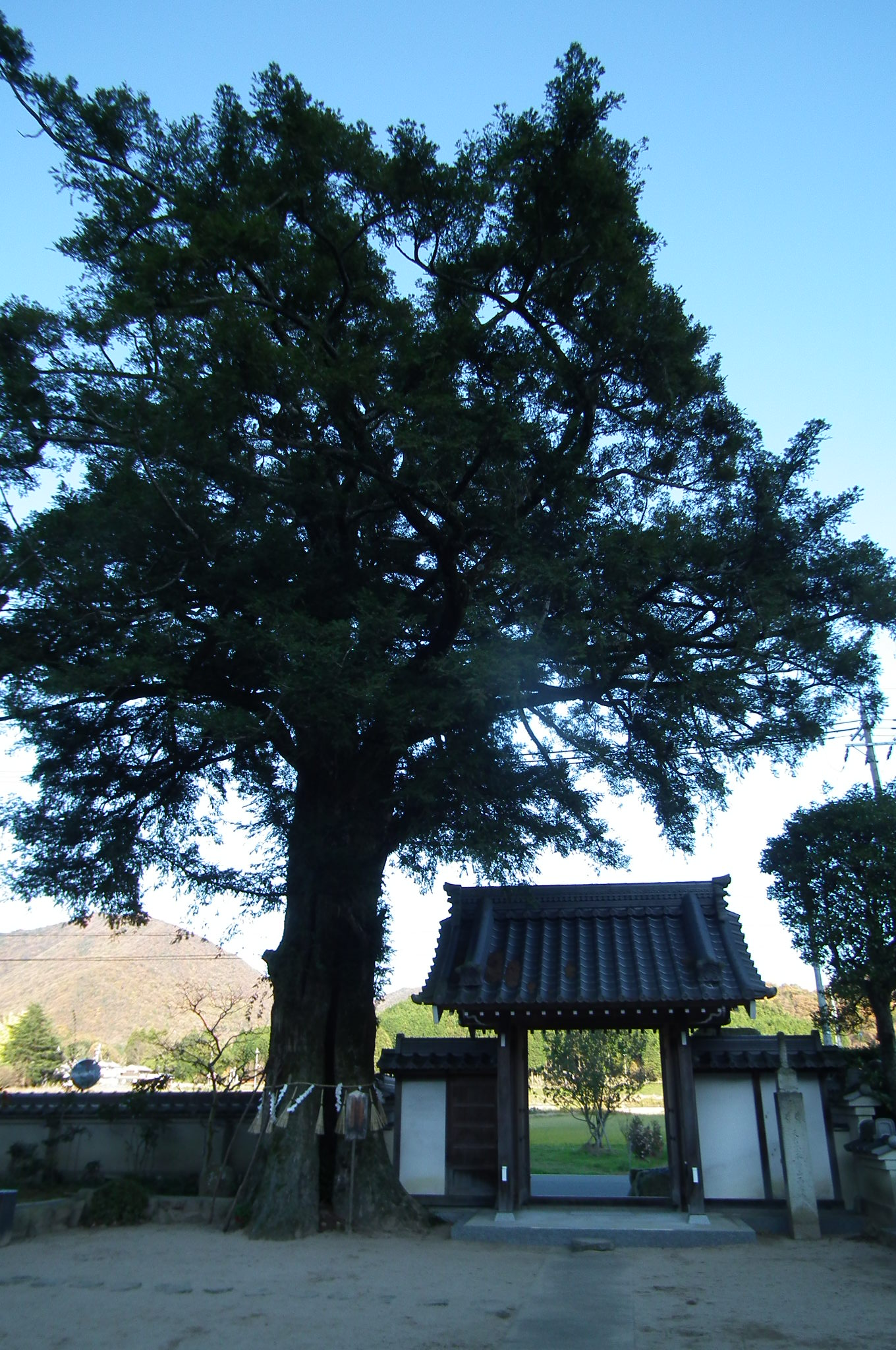 兵庫県篠山市今田町今田新田82 西方寺カヤ